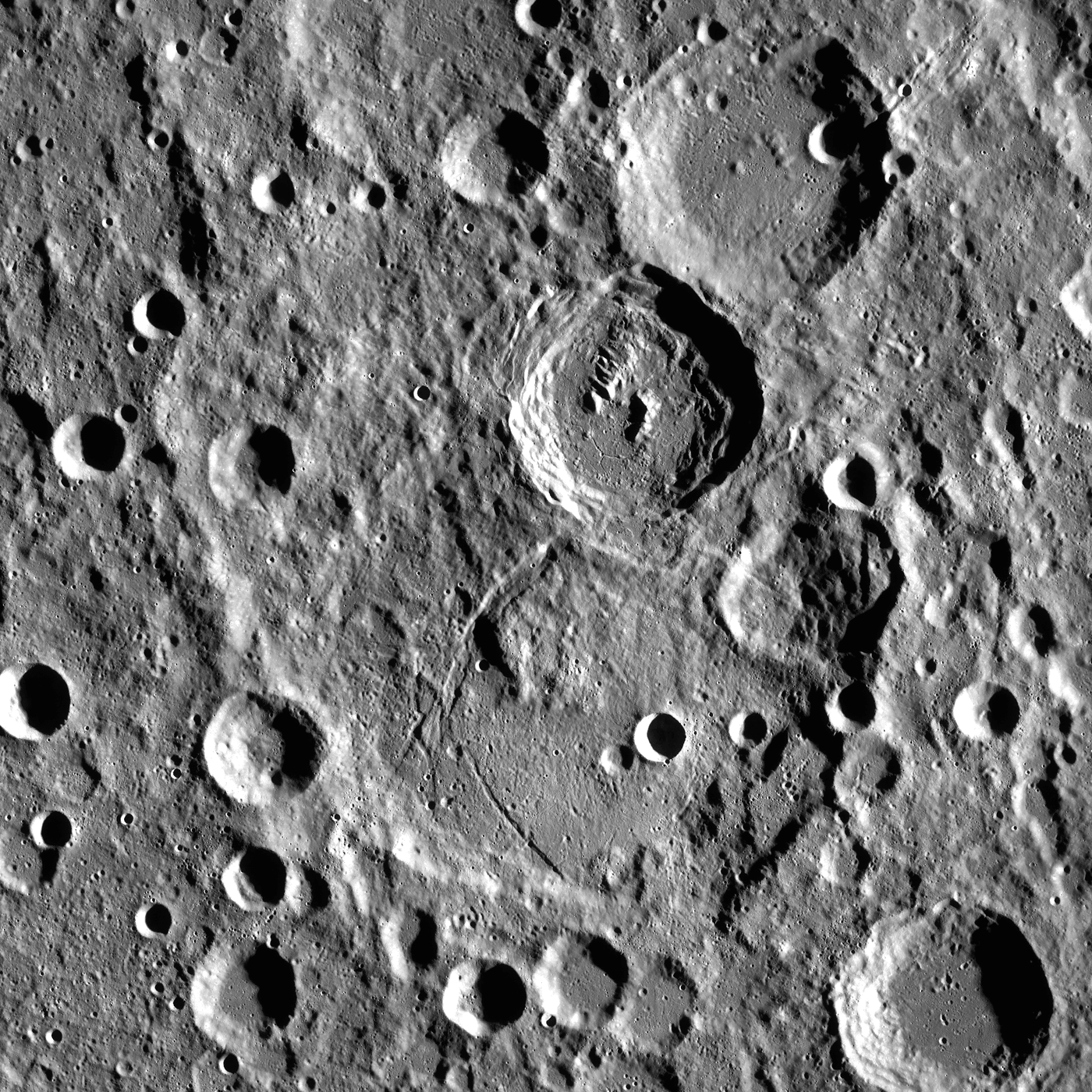 Crater Janssen (diam. 200 km) on the Moon. Mosaic of photos by Lunar Reconnaissance Orbiter, made with Wide Angle Camera. Size of the image is 330×330 km, north is up